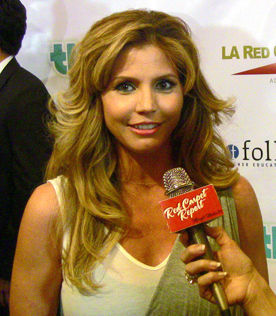 Actress Charisma Carpenter at the 2011 Thirst Project Gala Red Carpet.